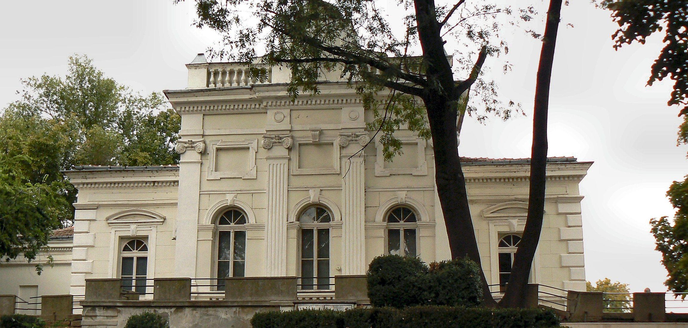 Building of Vidin Art Gallery "Nikola Petrov". Vidin, Bulgaria